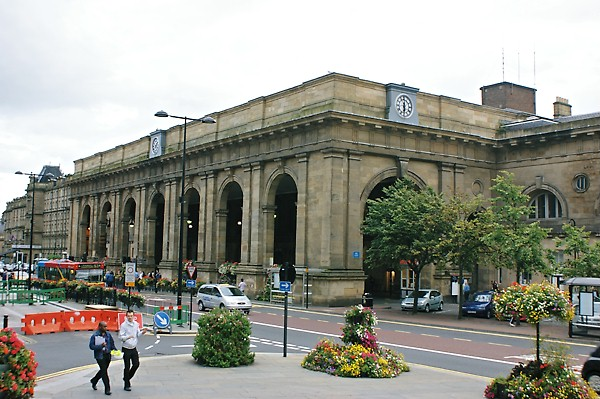 Newcastle Central station frontage, 09/08.